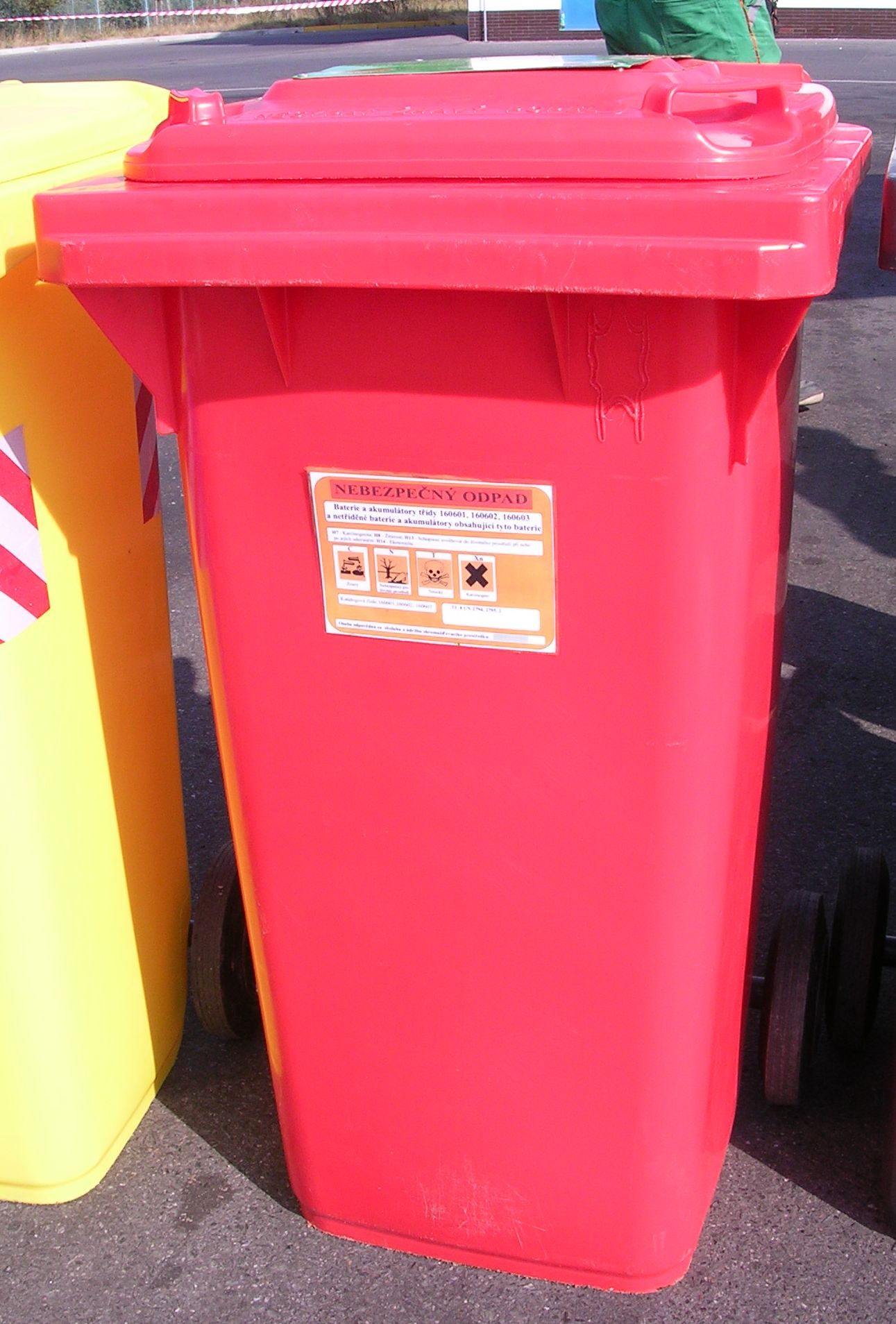 Řepy, Prague, the Czech Republic. Open Doors Day in Řepy bus depot. Exposed sorted waste container of Prague Services. Dangerous waste (batteries, accumulators).